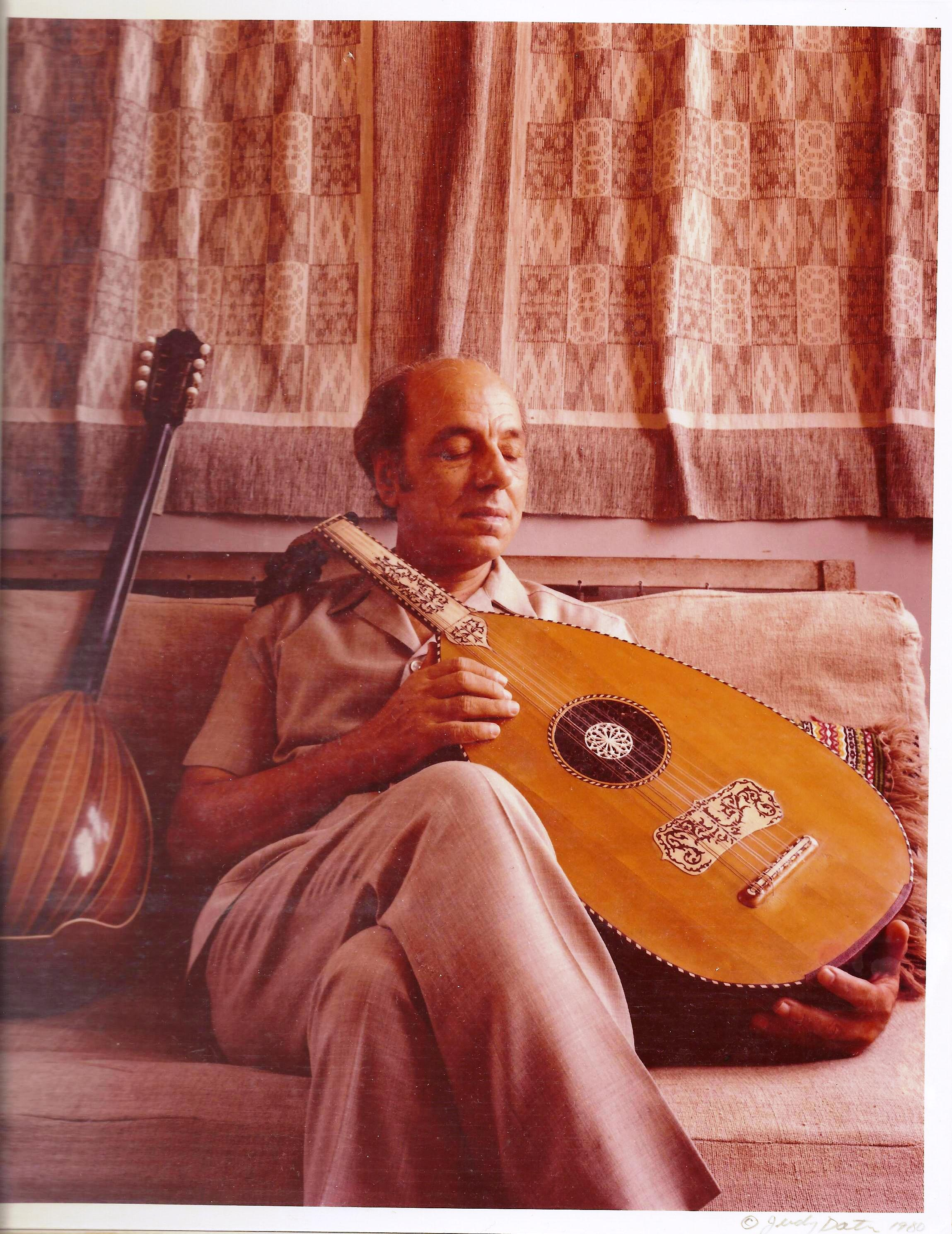 A picture of Hussein Bicar in the late 1970s with his lute and buzuki